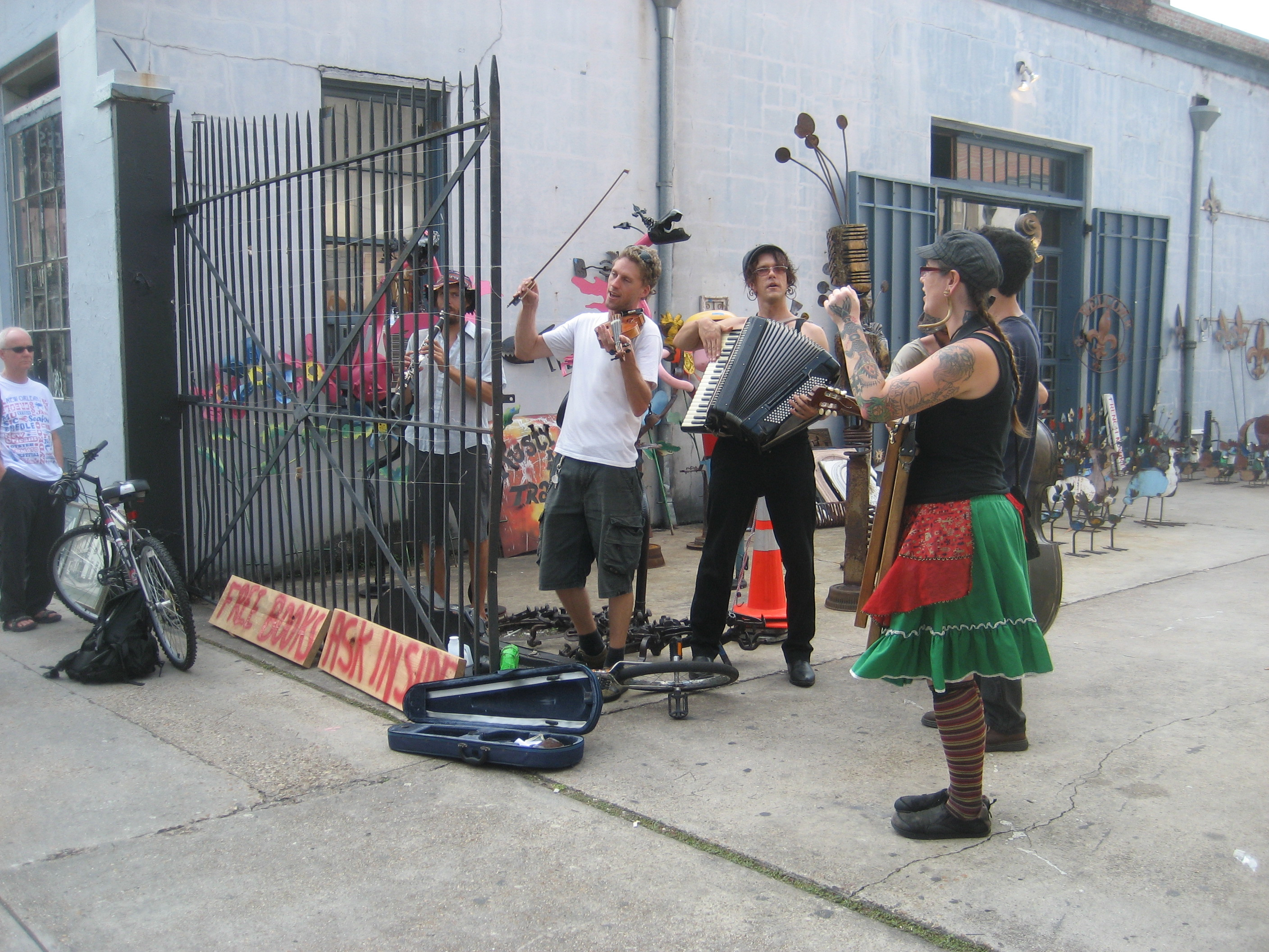 Klezmer band playing on Decatur Street, French Quarter, New Orleans